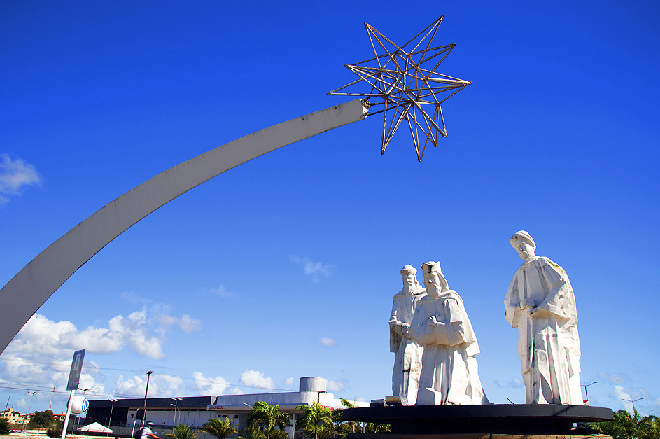 Three Wise Men Portico (Pórtico dos Reis Magos) in Natal, Brazil.